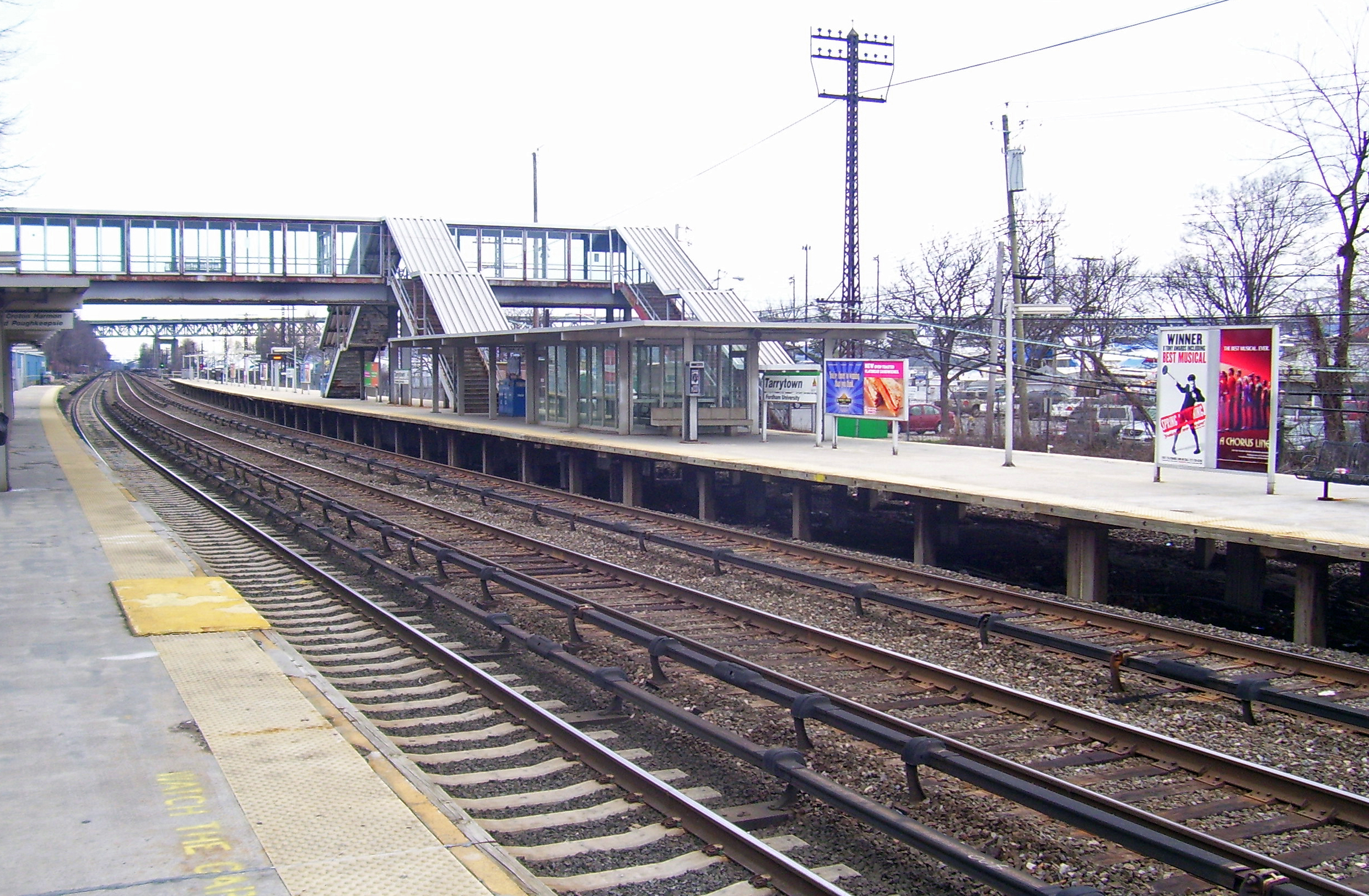 Metro-North train station in Tarrytown, NY, USA